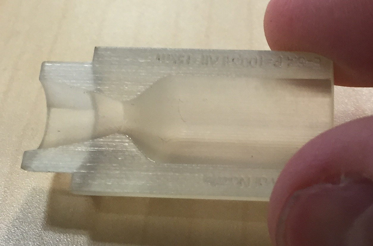 3D printed cross section of a cold gas thruster chamber and nozzle. This nozzle is designed with the following parameters: Expansion Ratio = 5.4 Chamber Pressure = 100 psi Operational Altitude = 15 km